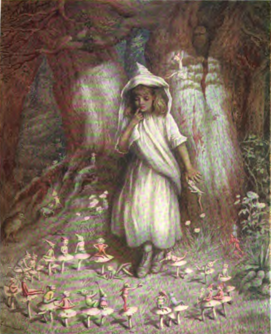 The Elf Ring, a watercolor painting by Kate Greenaway. Spielmann, M. H., and G. S. Layard , Kate Greenaway, 1905: "The Elf Ring. From a large water-colour drawing in the possession of John Greenway, Esq." (link to page). John Greenaway was the name of Kate Greenaway's brother (source) and father (source).